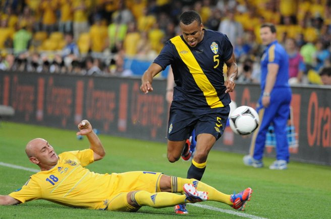 UEFA Euro 2012 match between Ukraine and Sweden that took place in Kiev. Final result was 2:1 (2xShevchenko - Ibrahimović)